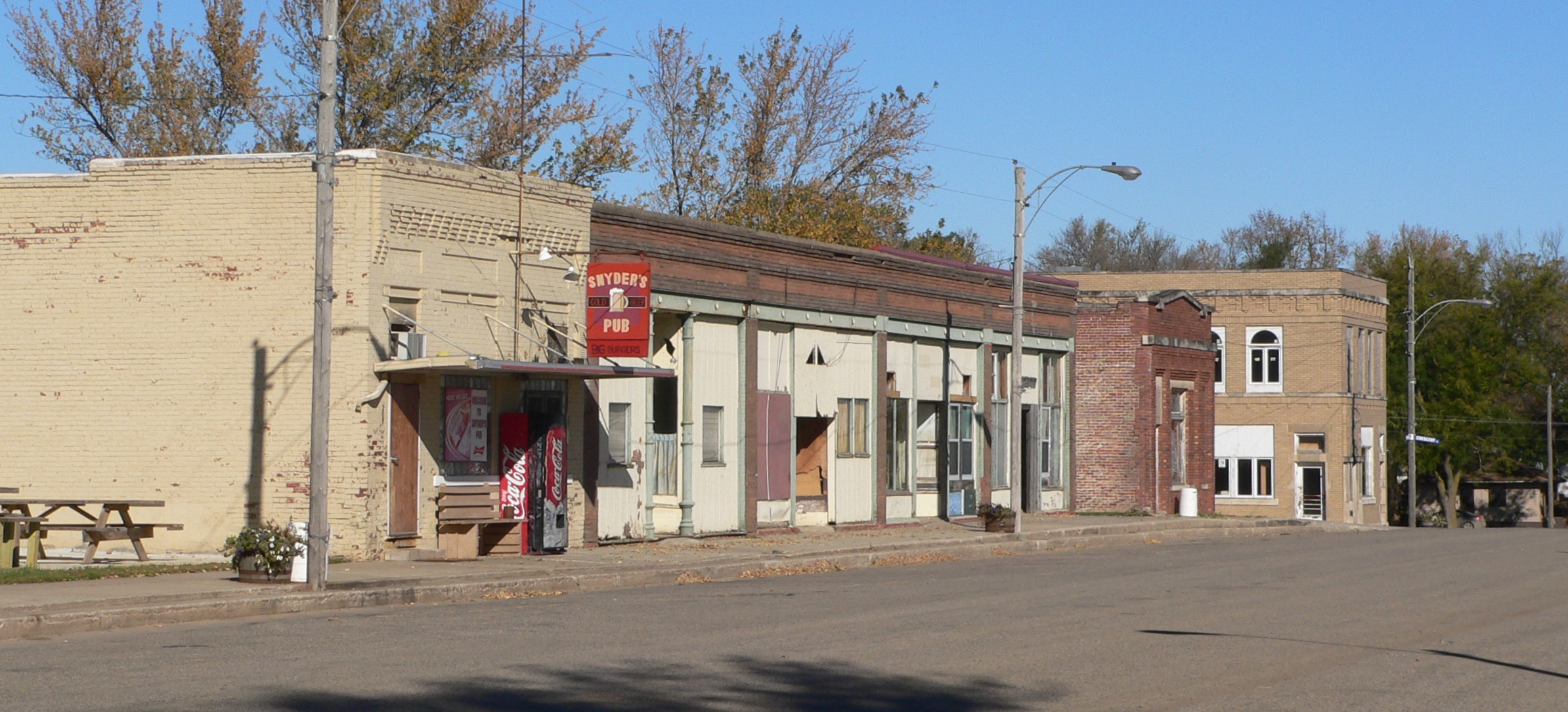 Downtown Rosalie, Nebraska: west side of the main street.